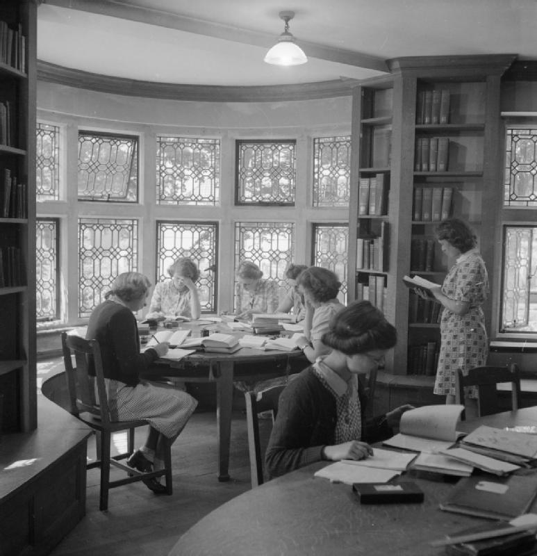 A Picture of a Southern Town- Life in Wartime Reading, Berkshire, England, UK, 1945 A group of girls carry out some private study in the library of Queen Anne's School, Caversham, Reading.